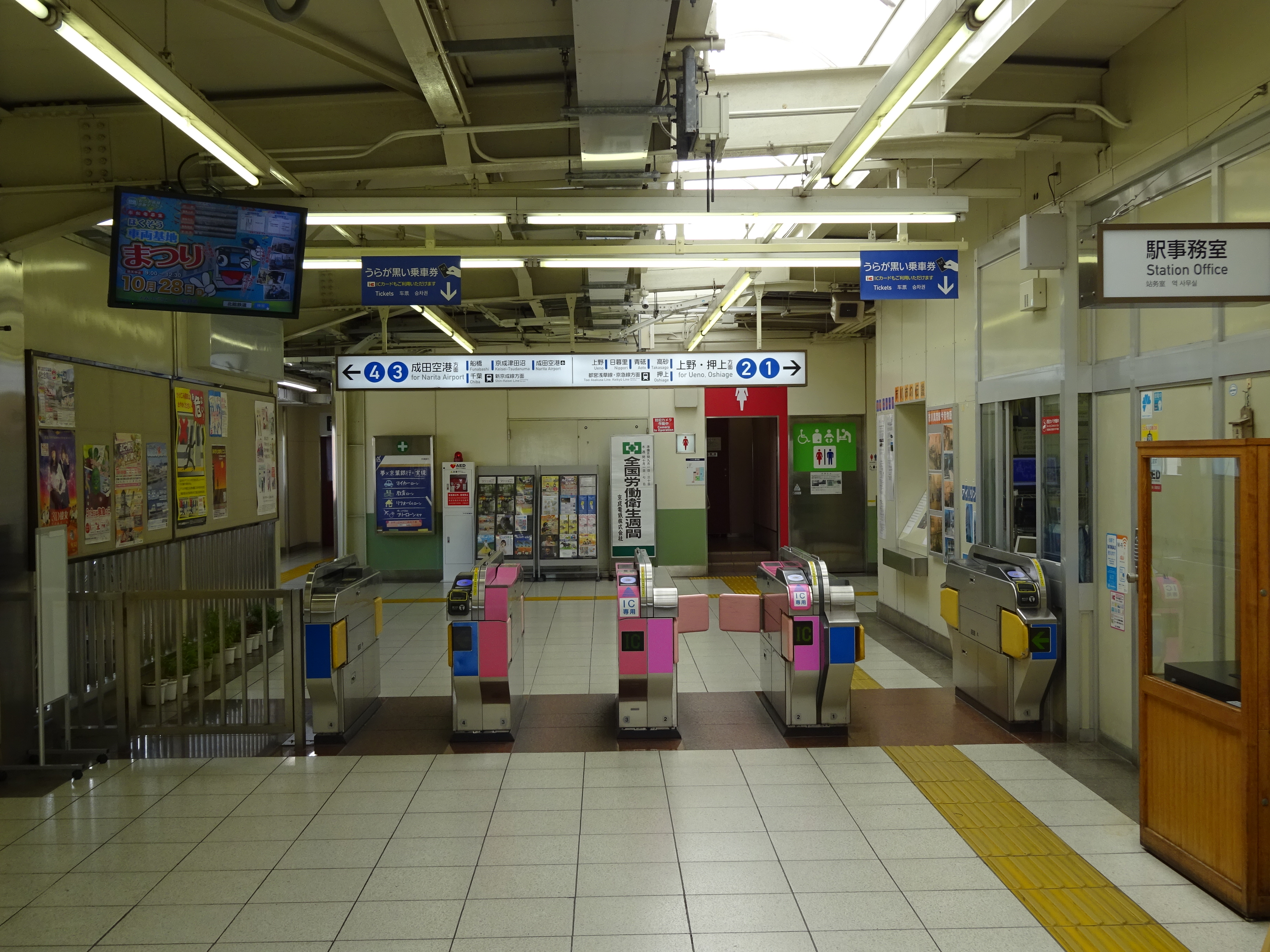 Ticket barriers of Ichikawamama Station